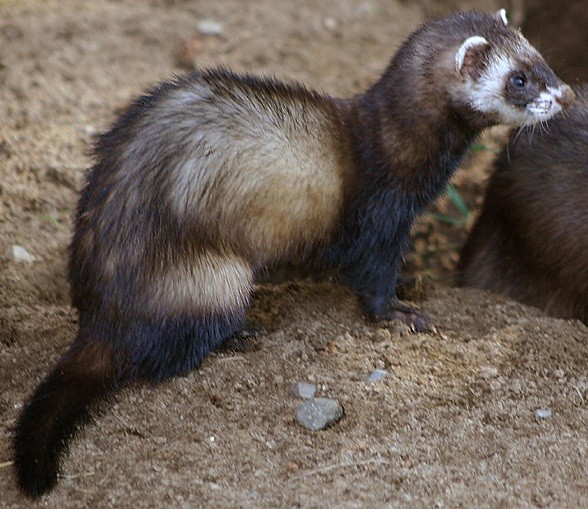 Polecats (Mustela putorius) at Skandinavisk Dyrepark, Djursland, Denmark